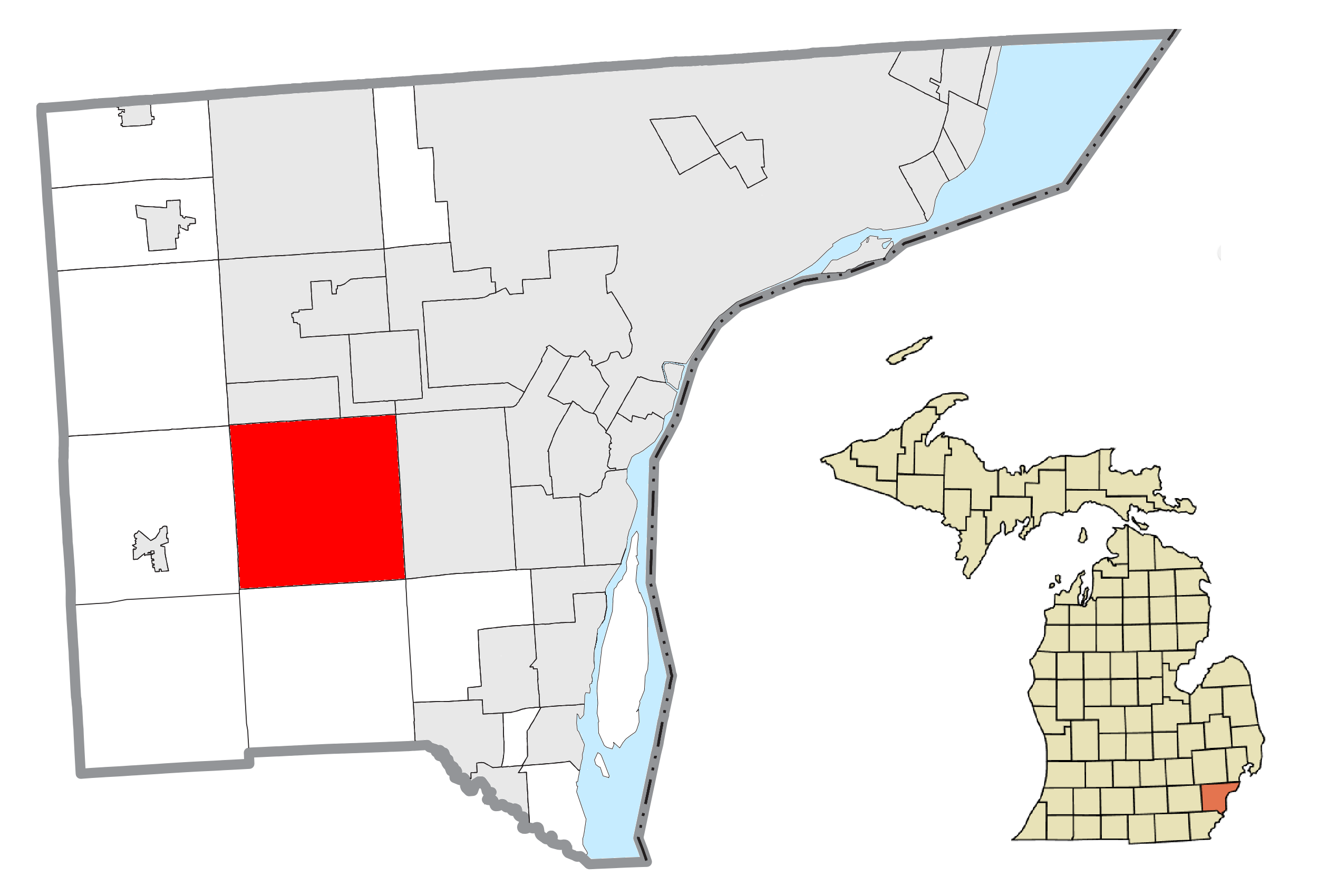 Romulus, MI